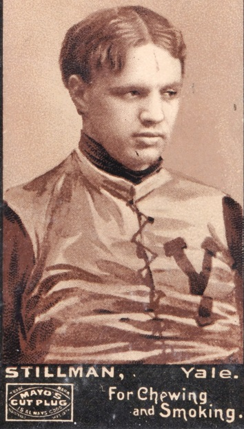 1894 N302 Mayo's Cut Plug of Phillip Stillman, Yale football player